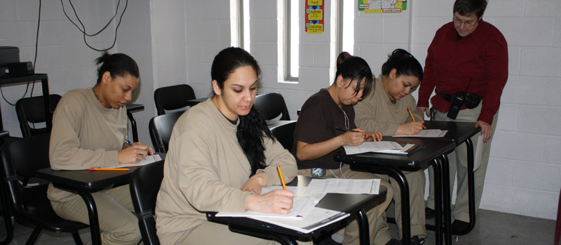 Female inmates in a classroom setting receiving instruction in the US